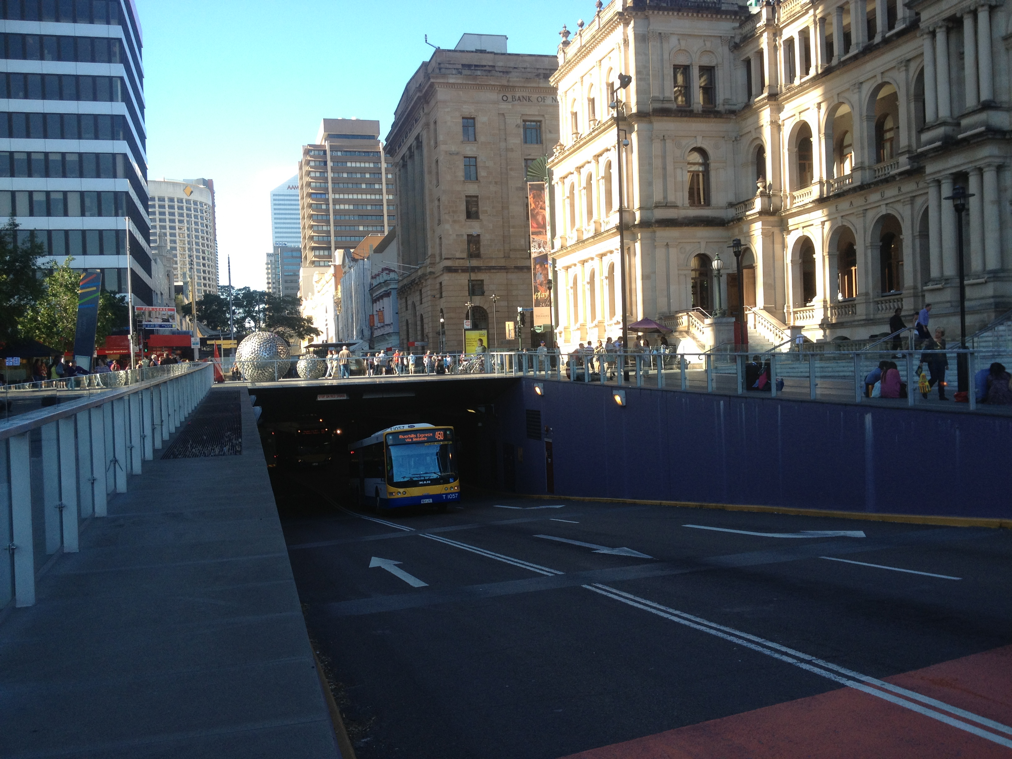 South East Busway tunnel entrance under Brisbane CBD leading to the Queen Street bus station, 07.2013